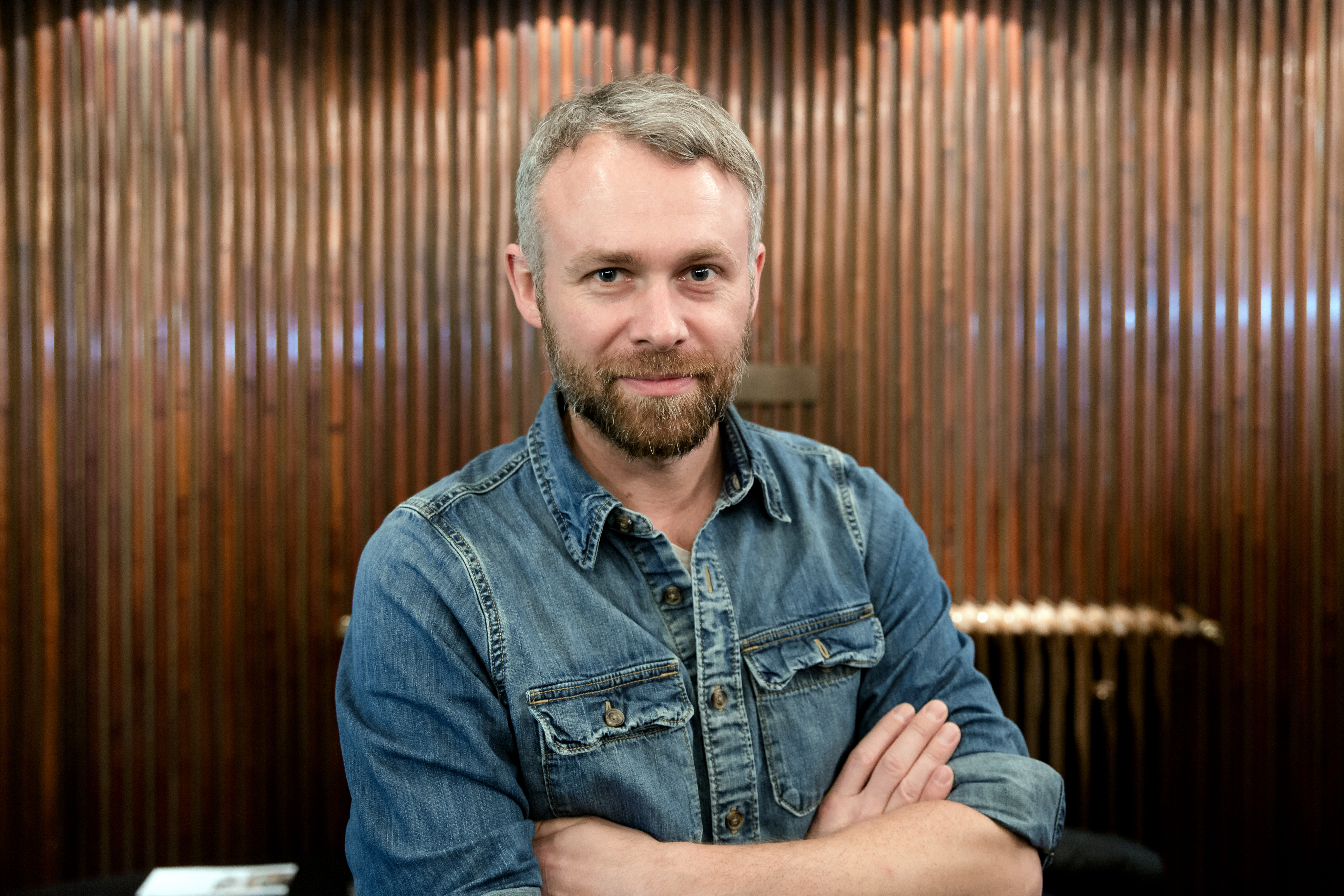 Niko Alm at the Austrian premiere of the documentary film Democracy at Filmcasino in Vienna, Austria).